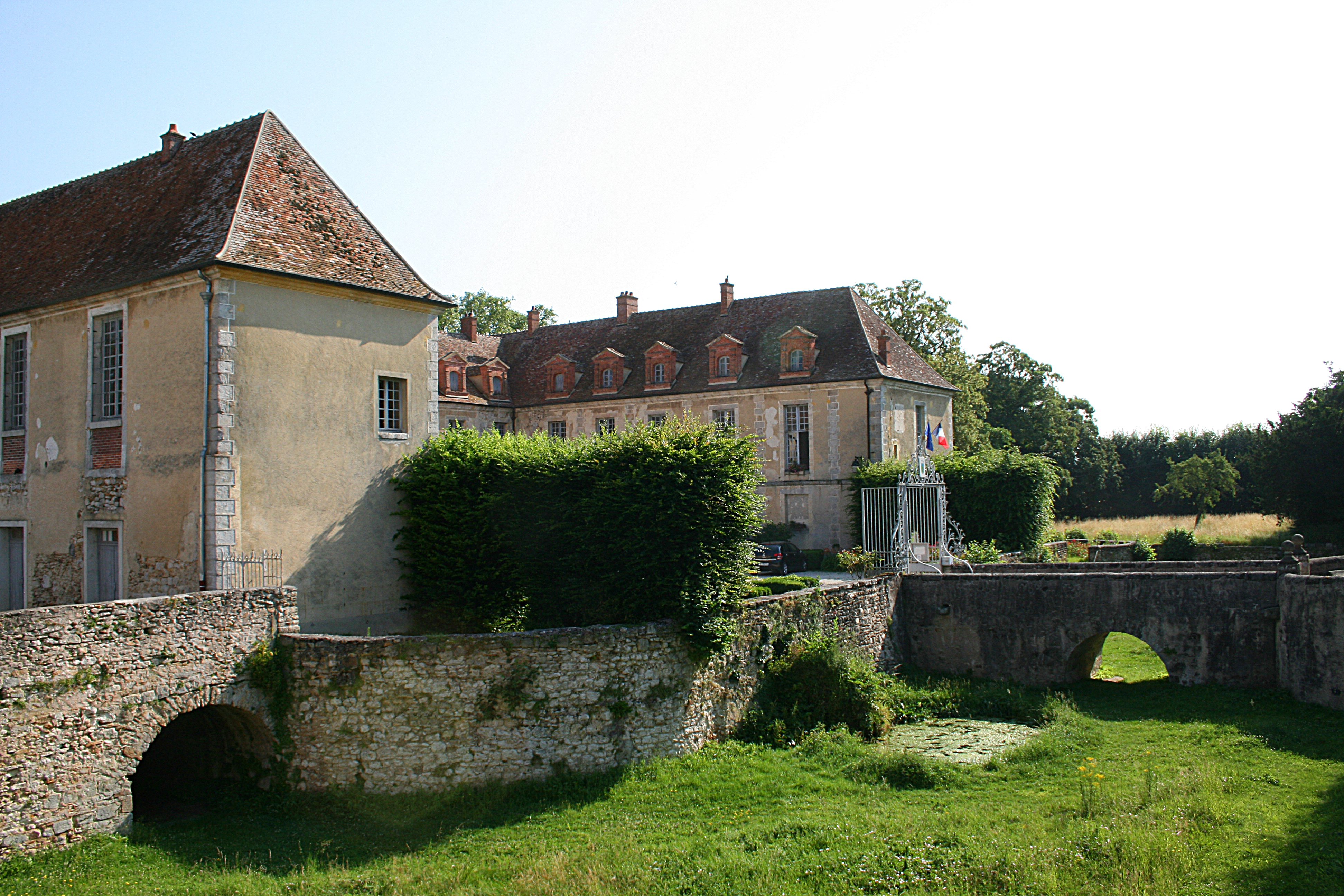 La Chapelle-Gauthier ( Seine-et-Marne]), the former castle (12th century, 1st half 17th century, 18th century) and its moat, now housing the town hall services and the municipal library.